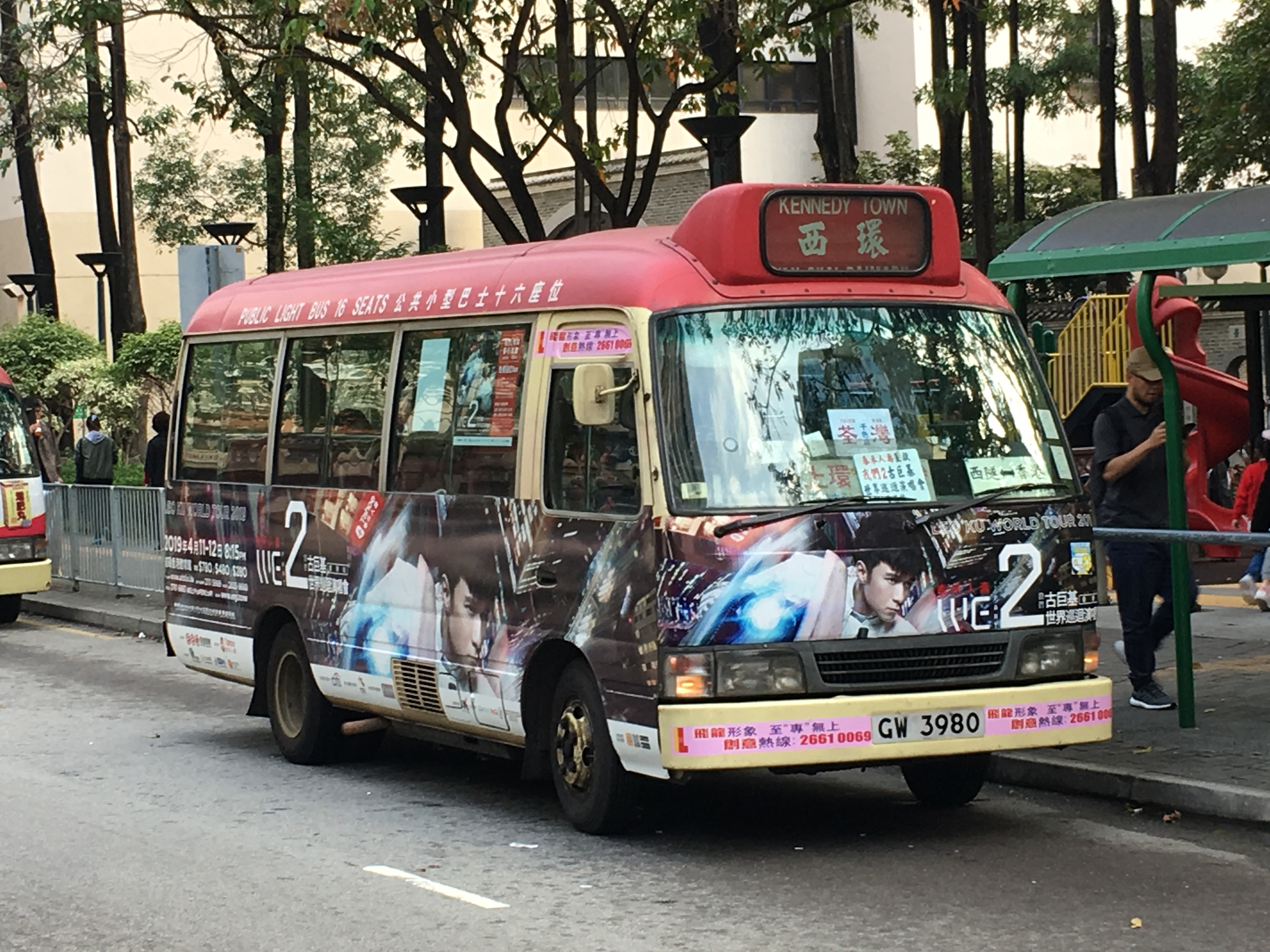 中文（香港）: This photo is taken in Tsuen Wan.